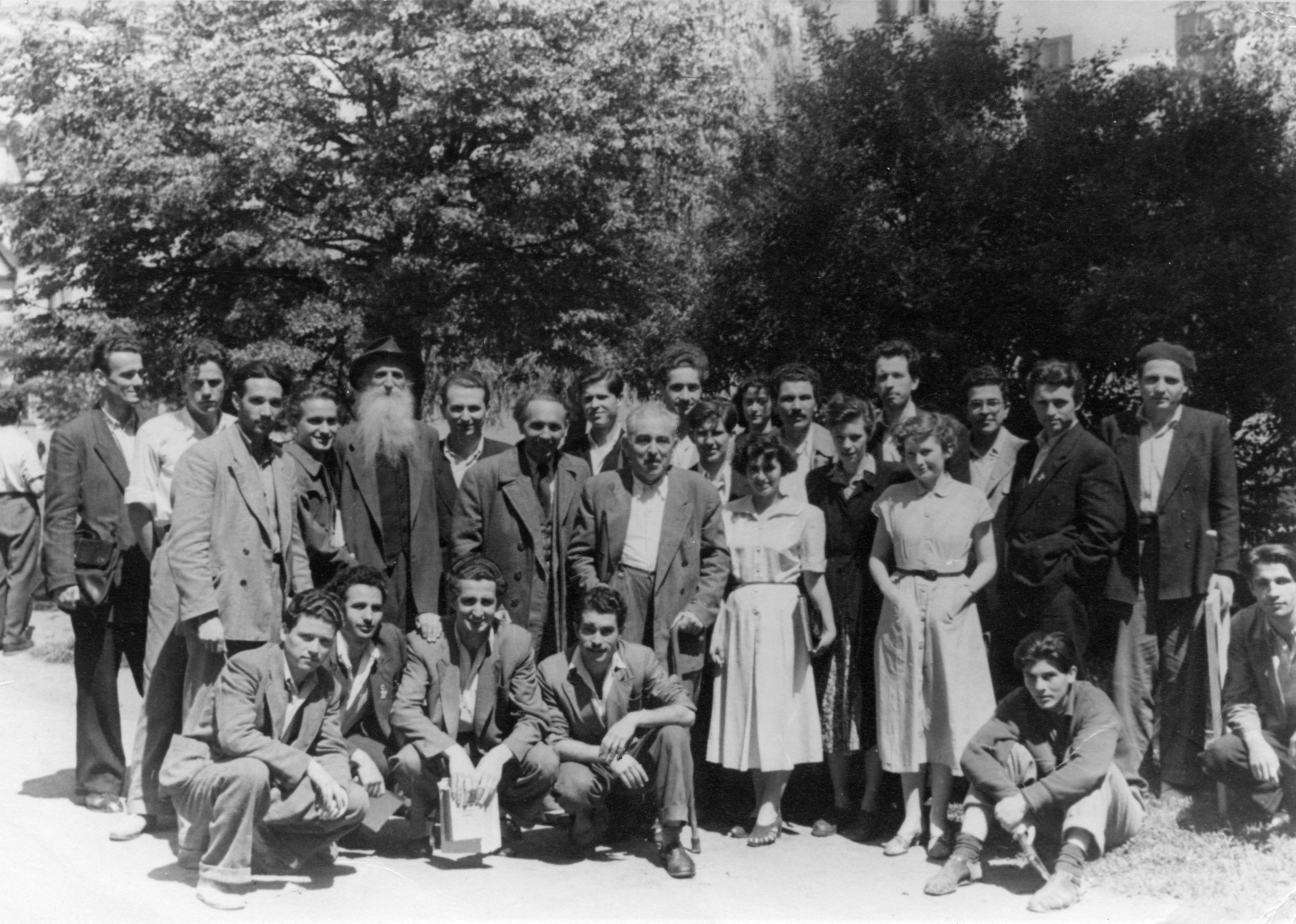 Vladimir Dimitrov Maystora, Iliya Beshkov, Ivan Lazarov and students at the National Academi of Arts in Sofia- 1955